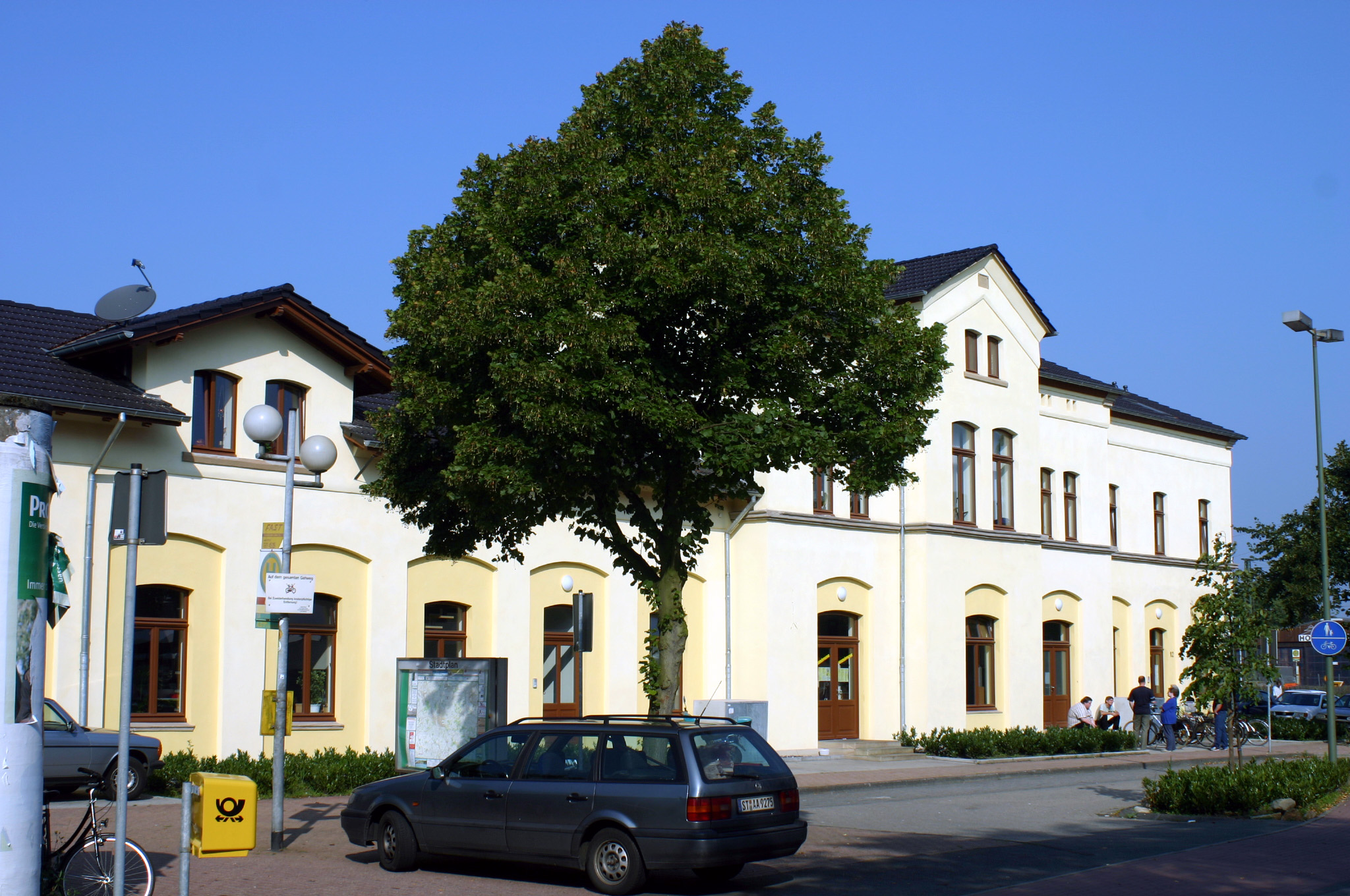 The railway station at Greven in North Rhine-Westphalia, Germany